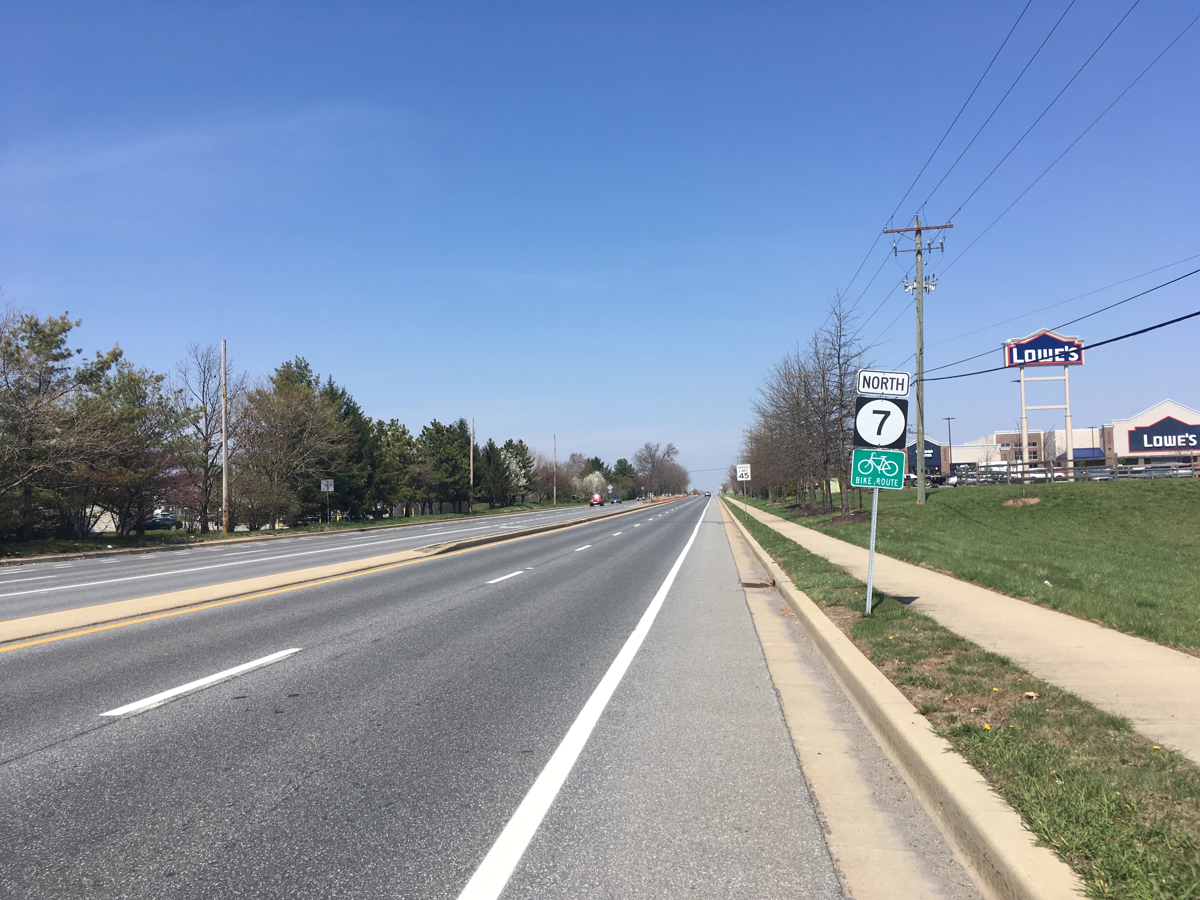 Northbound Delaware Route 7 (Bear Christiana Road) past the intersection with Songsmith Drive in Bear, Delaware